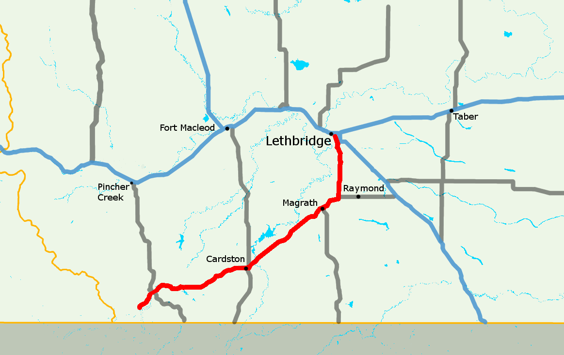 Alberta Highway 5 - created with OpenStreetMap